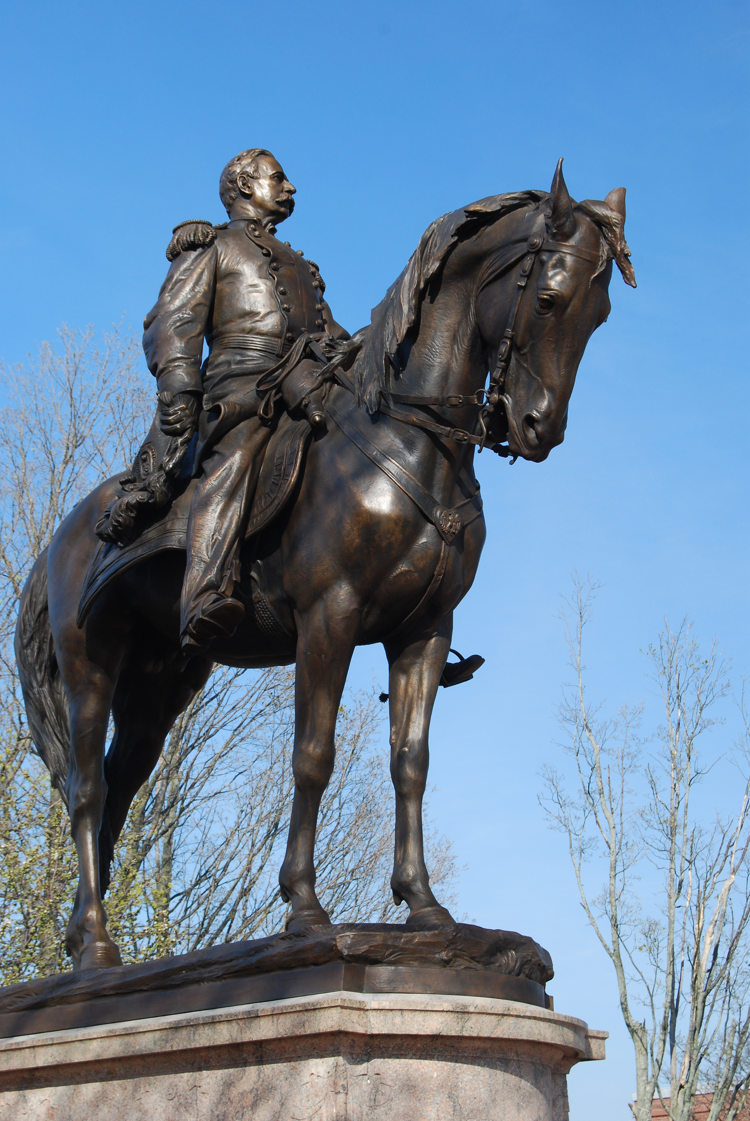 Statue of William Franklin Draper (1842-1910), Milford, Massachusetts